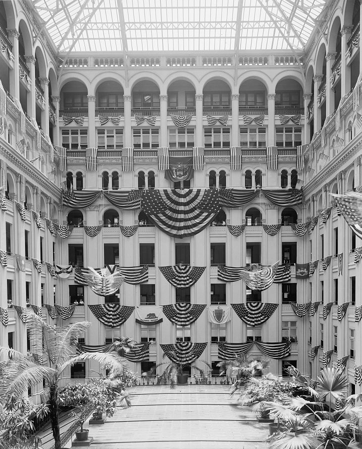 Flag Day, P.O. Dept., [Washington, D.C.], 1914